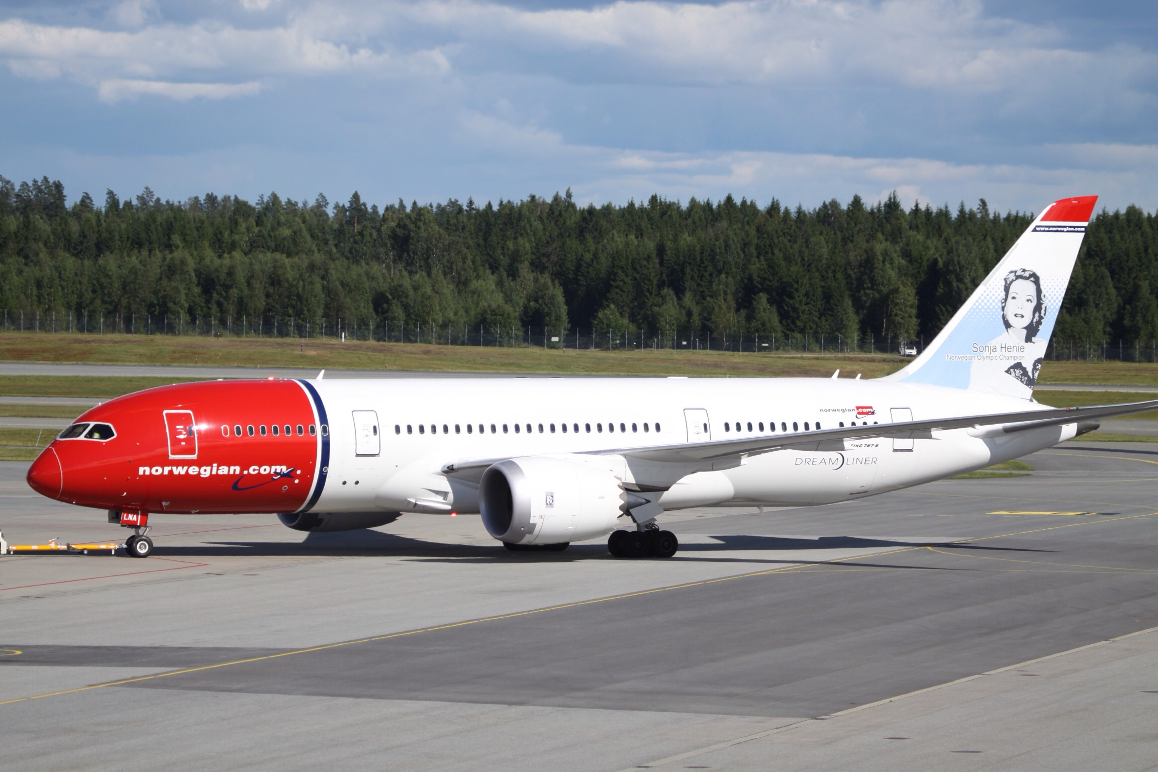 At Oslo Gardermoen